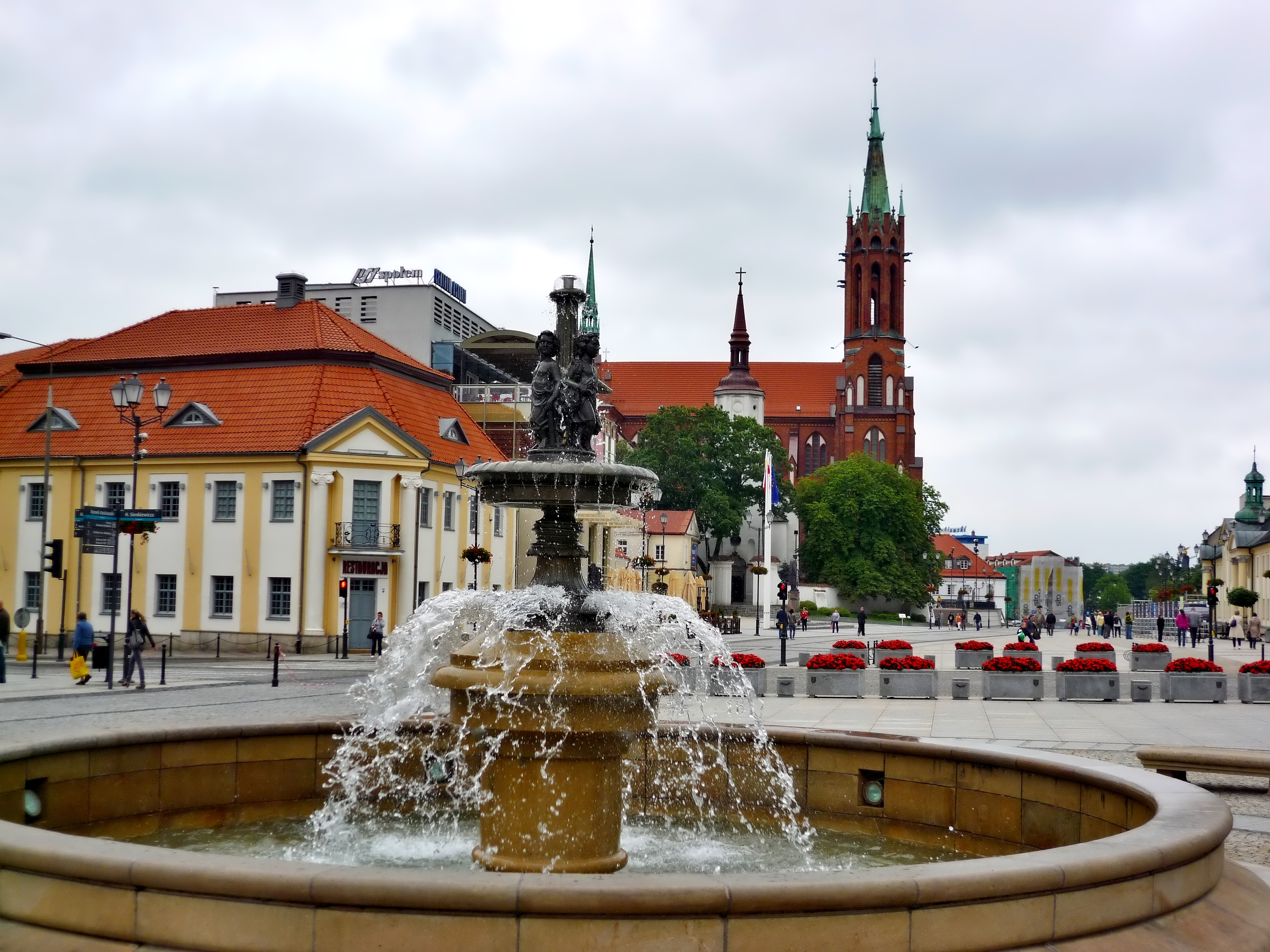 Białystok - fountain at the Market Square and the catholic cathedral of the Assumption of the Blessed Virgin Mary